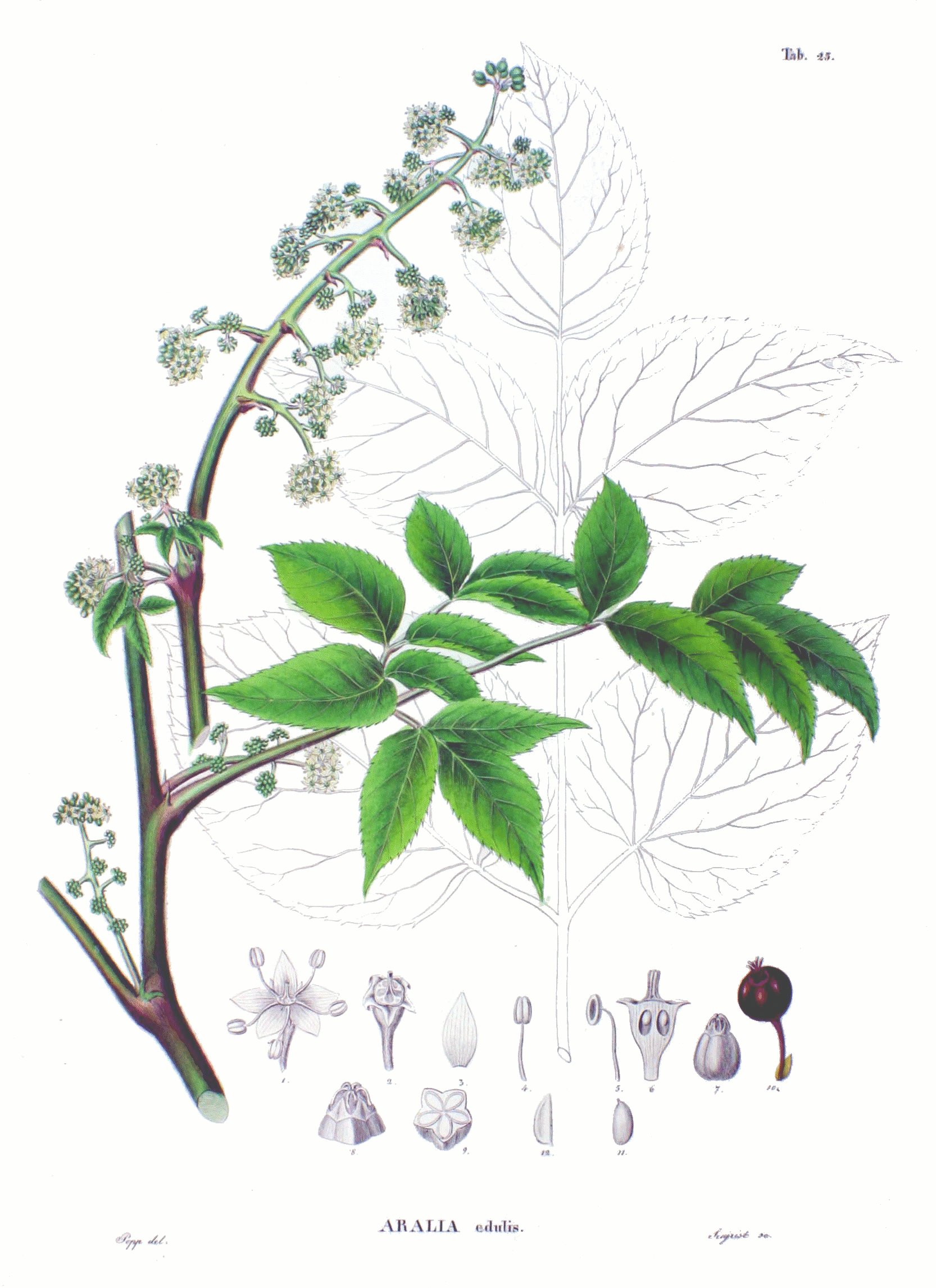 Plate from book